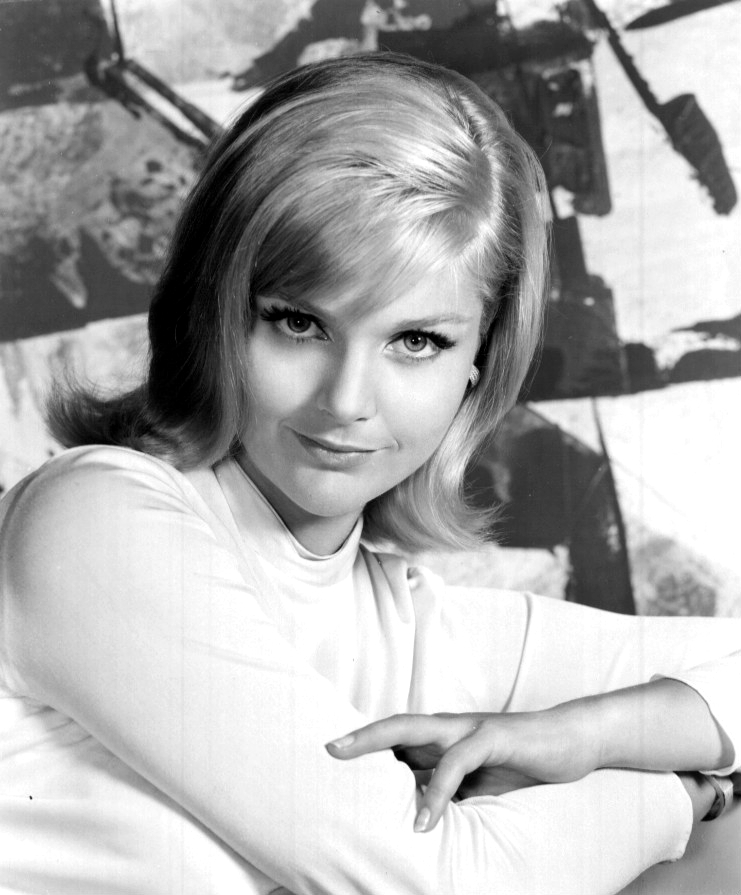 Photo of actress Carol Lynley.